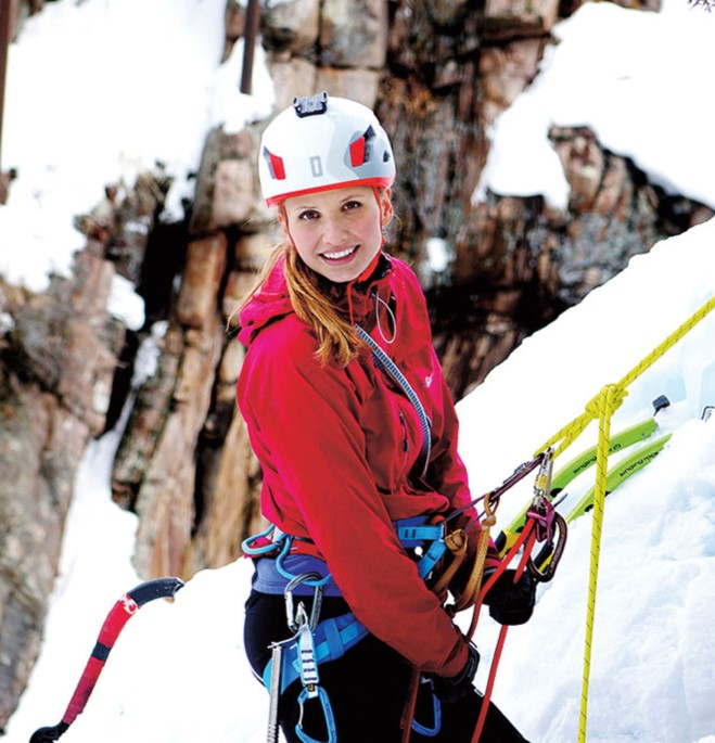 Lucie is climbing